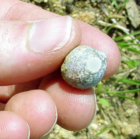 Lead bullet from shrapnel shell recovered on the Verdun battlefield in France.